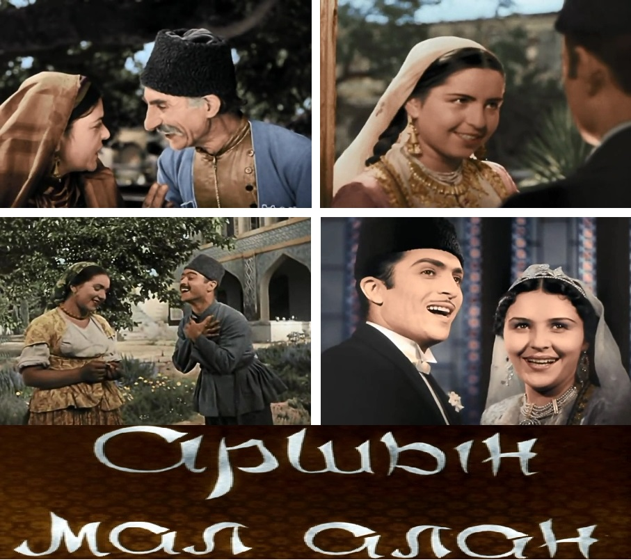 Photo collage of the film "Arşın mal alan"